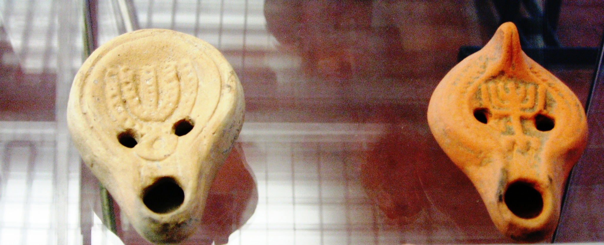 Ancient Roman oil lamps, showing the Jewish menorah, on display at the Museo nazionale archeologico ed etnografico "G. A. Sanna" at Sassari, Italy.